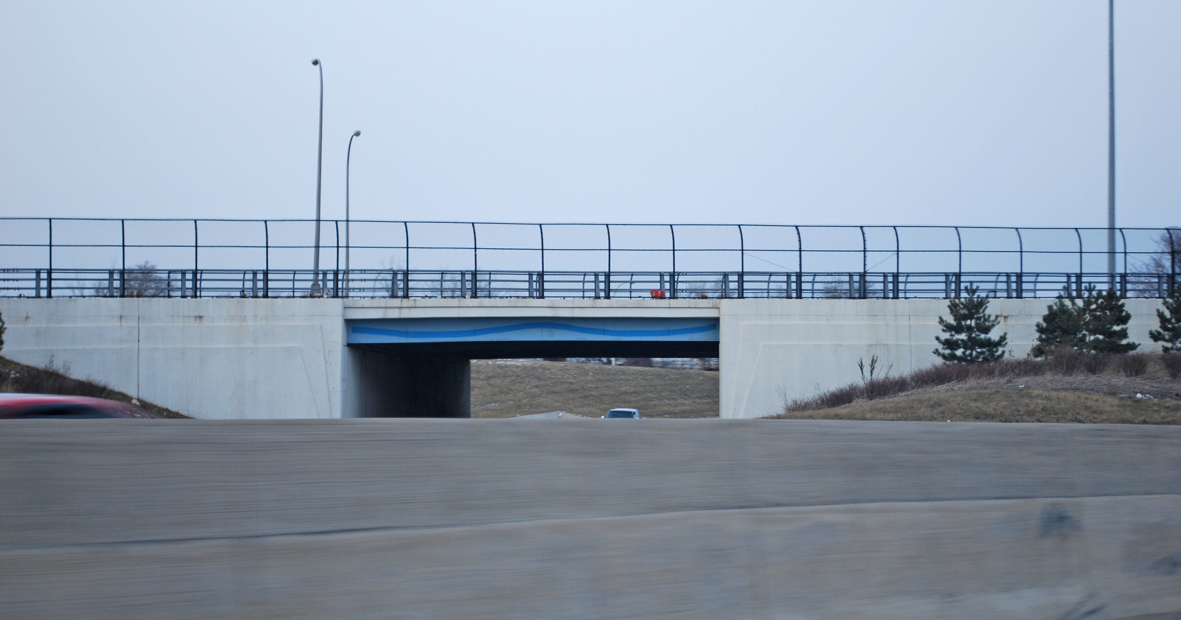 US12 bridge over I94 onramp